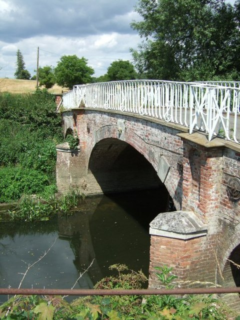 Bridge over the River Mole in Surrey